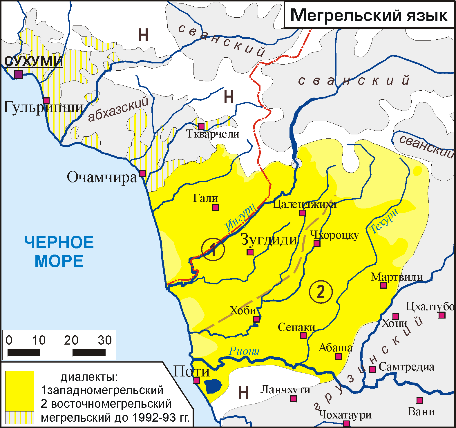 Map of Megrelian language area